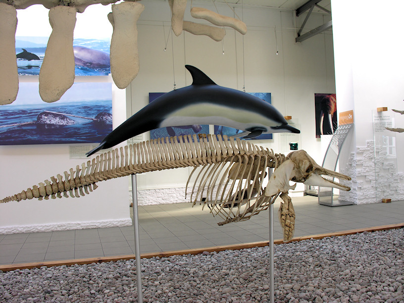 Dolphin skeleton in the Museum of the World Ocean, Kalinigrad.